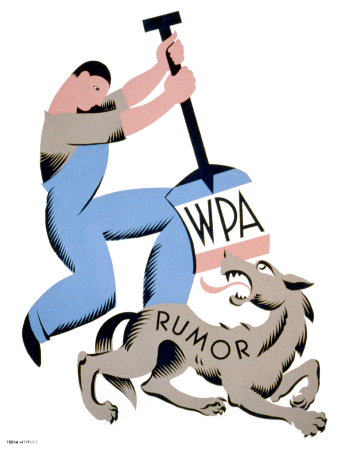 Poster showing a man with WPA shovel attacking wolf labeled rumor.